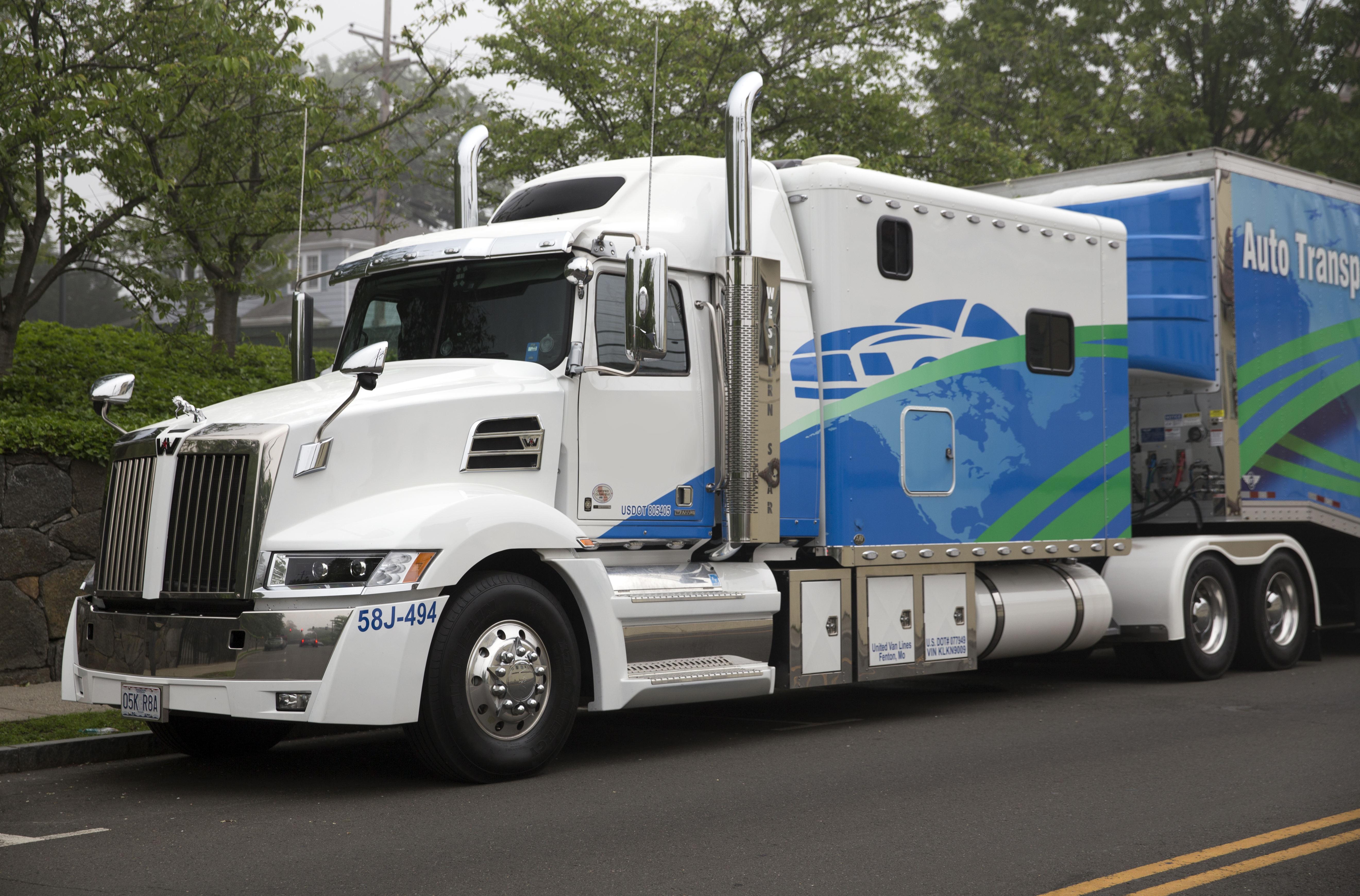 2019 Western Star 5700XE with a 560hp Detroit Diesel DD16 (15.6L) and a huge ARI sleeper.